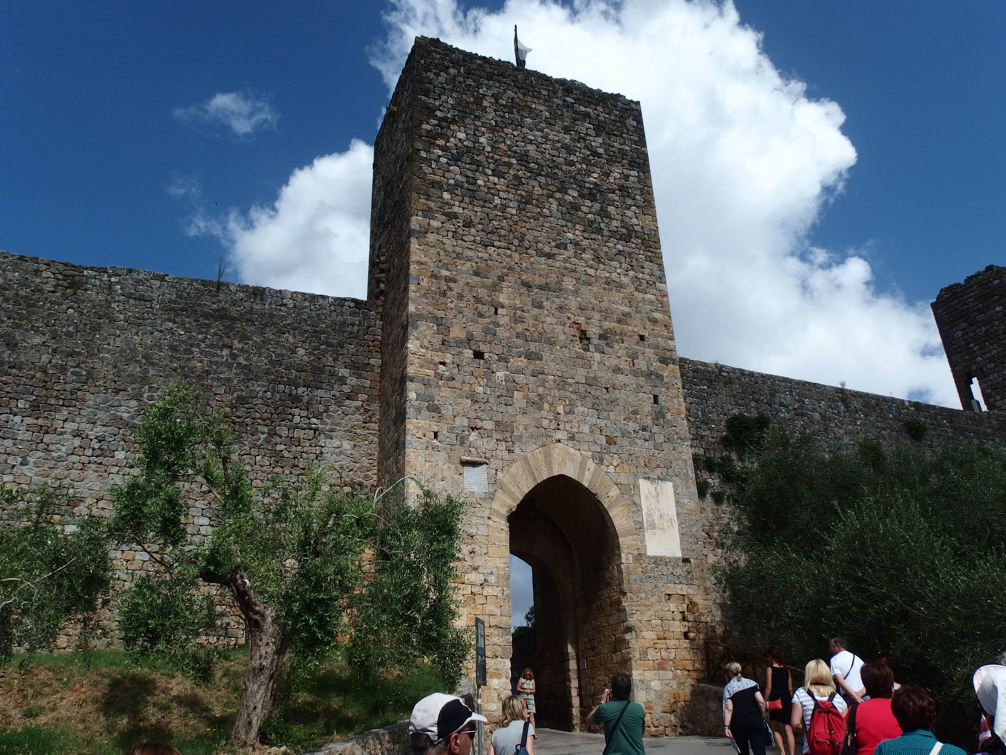 Monteriggioni, Tuscany, Italy.